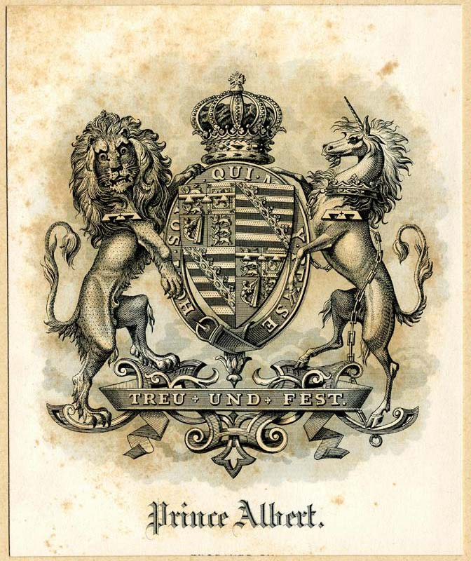 Armorial/Heraldic Bookplates. Subject: Coat of arms; Animals; Crowns; Royal. Subject - Personal Name: Saxe-Coburg-Gotha, Albert.